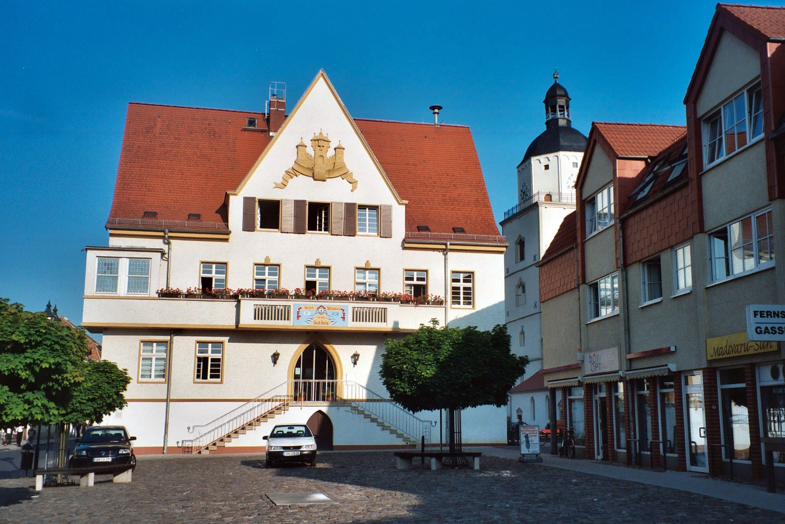 Barby, town square and town hall